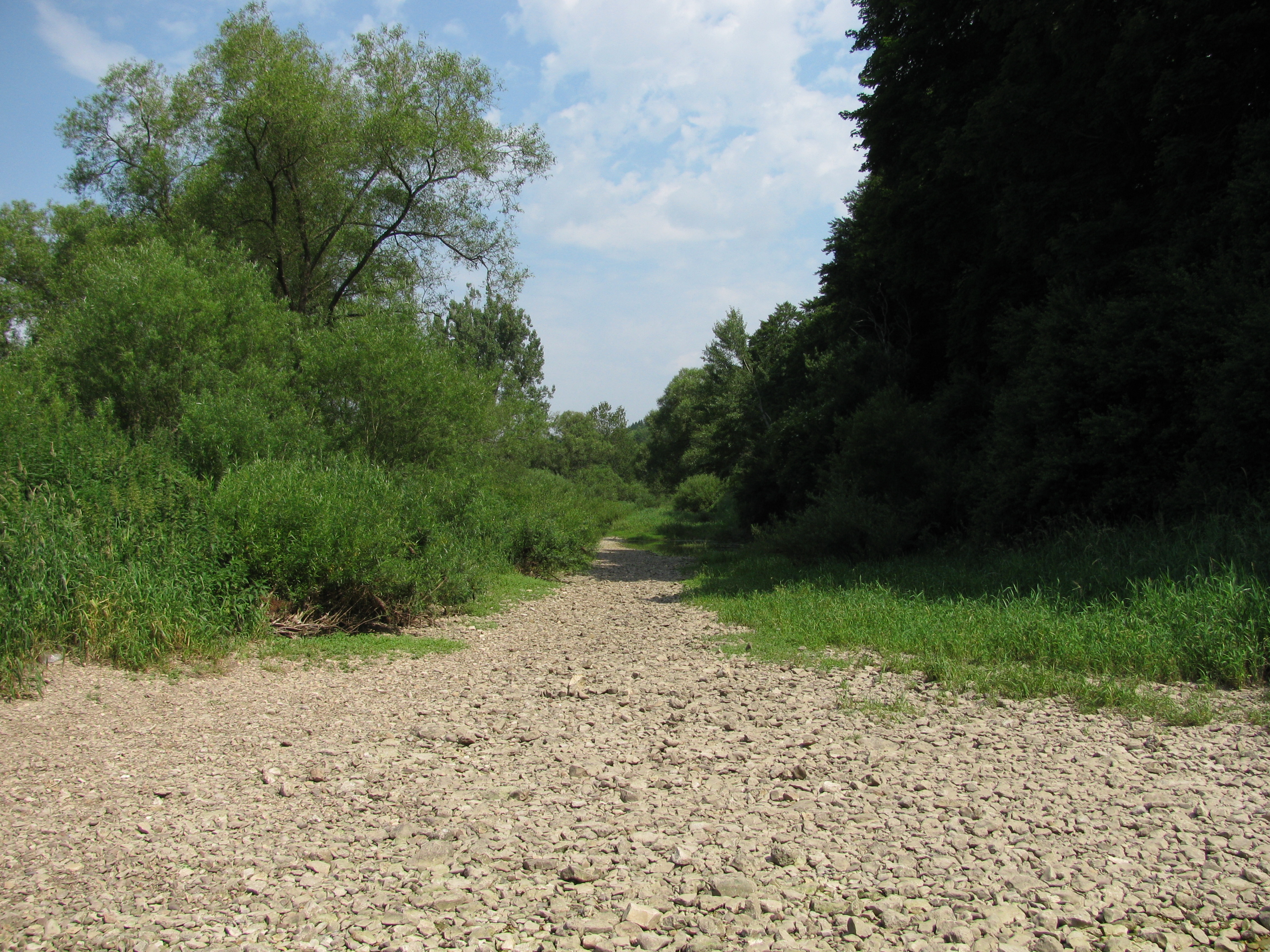 Germany - Baden-Württemberg - district Tuttlingen - Immendingen: "Danube Sinkhole", inside the stream bed